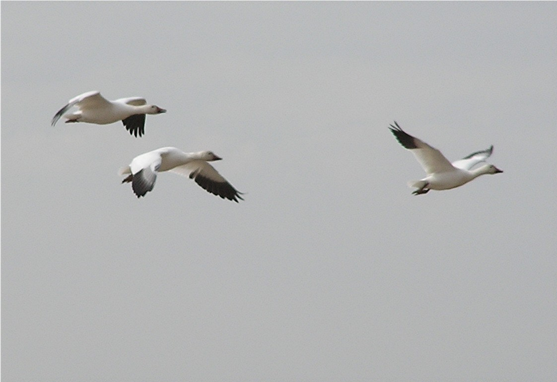 Anser caerulescens, Pea Island, NC, USA